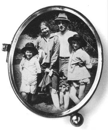 Photograph of Herriman family. From left to right: Barbara (Bobbie), Mabel, George, Mabel (Toots)